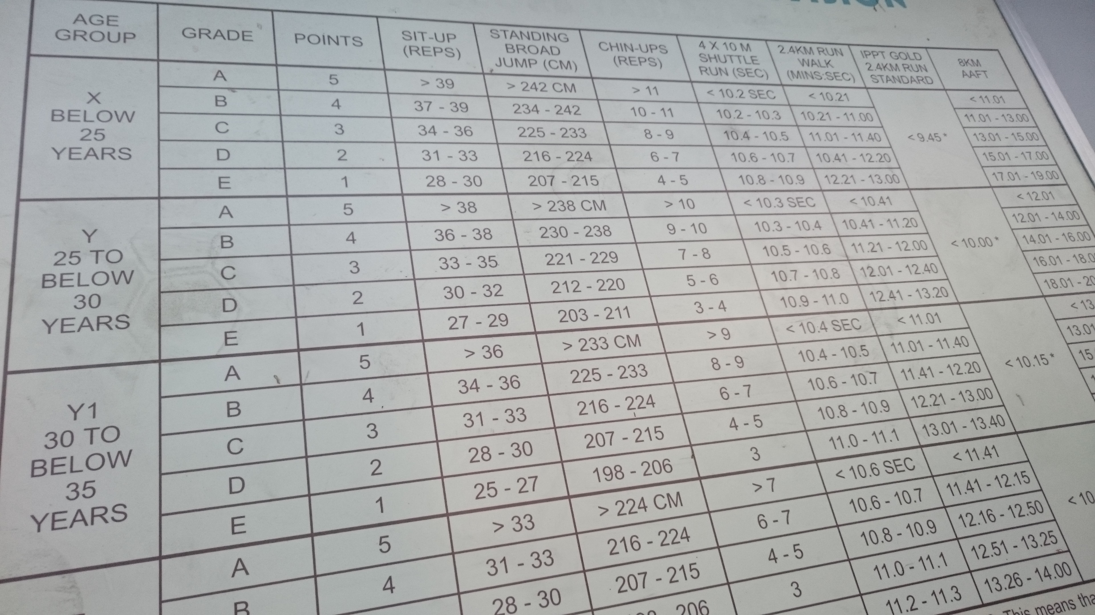 Old individual physical proficiency test (IPPT) standards used prior to 2015 by the Singapore Armed Forces, Singapore Police Force and Singapore Civil Defence Force.